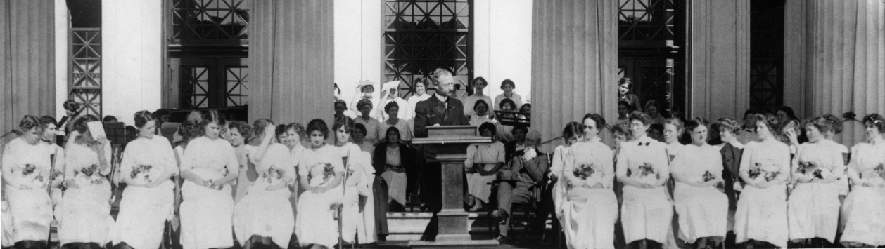 The first graduating class of the opening year of the newly constructed San Diego Normal School. The image was taken on the steps of the building. The school would later expand and change names several times until deciding on the current name, San Diego State University.